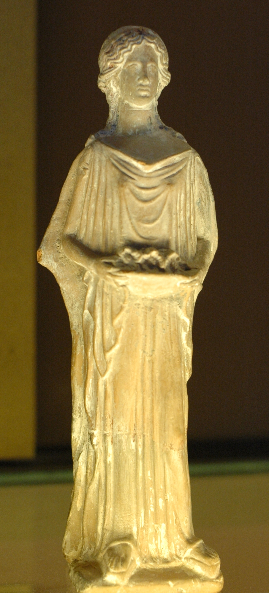 Woman bearing flower offerings. Terracotta, made in Corinth, 4th century BC.